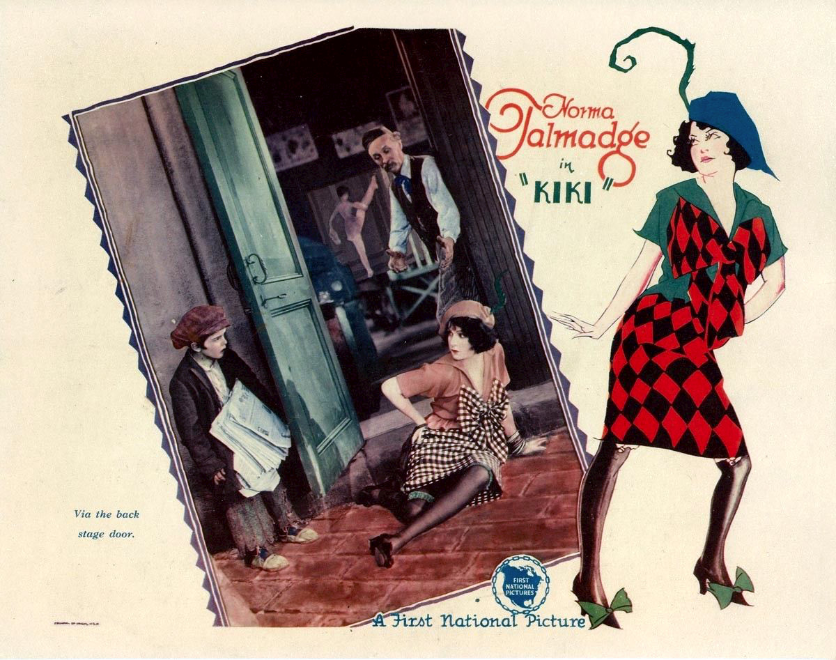 Lobby card from the 1926 film Kiki with Norma Talmadge.